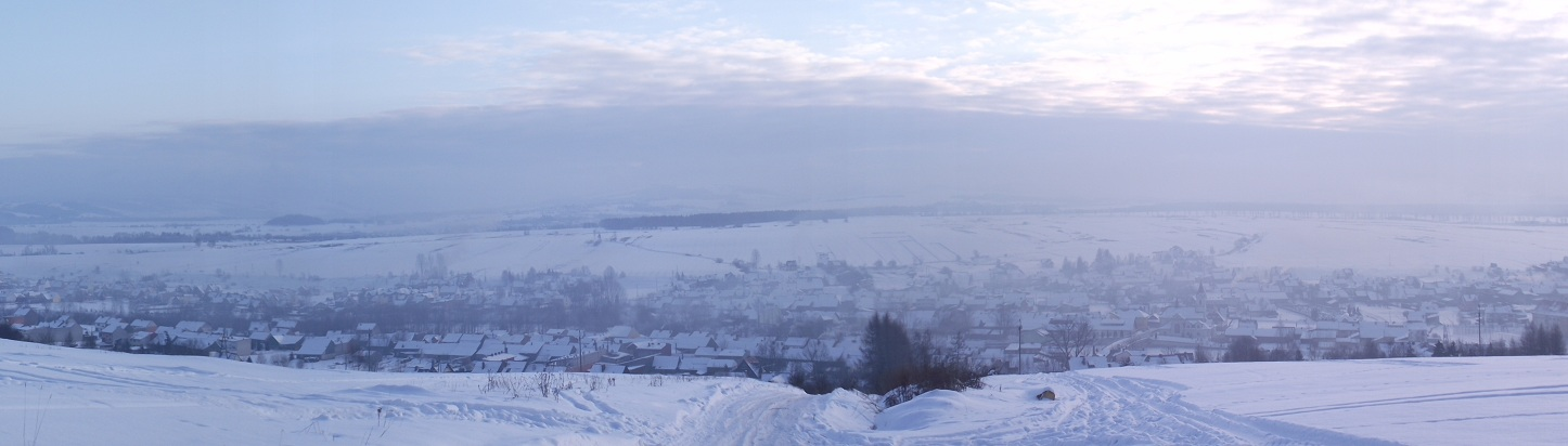 The village of Waksmund seen from the foothills of Gorce to the north